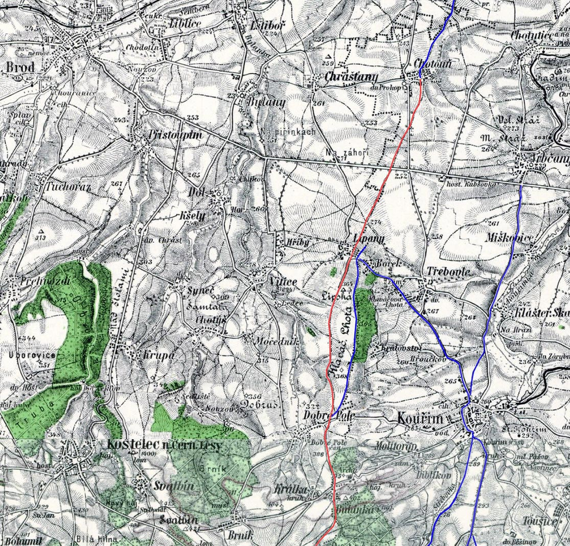 Last part of "Devils furrow" near to Chotoun village on the old military map (IIInd Military Survey 1877-80)